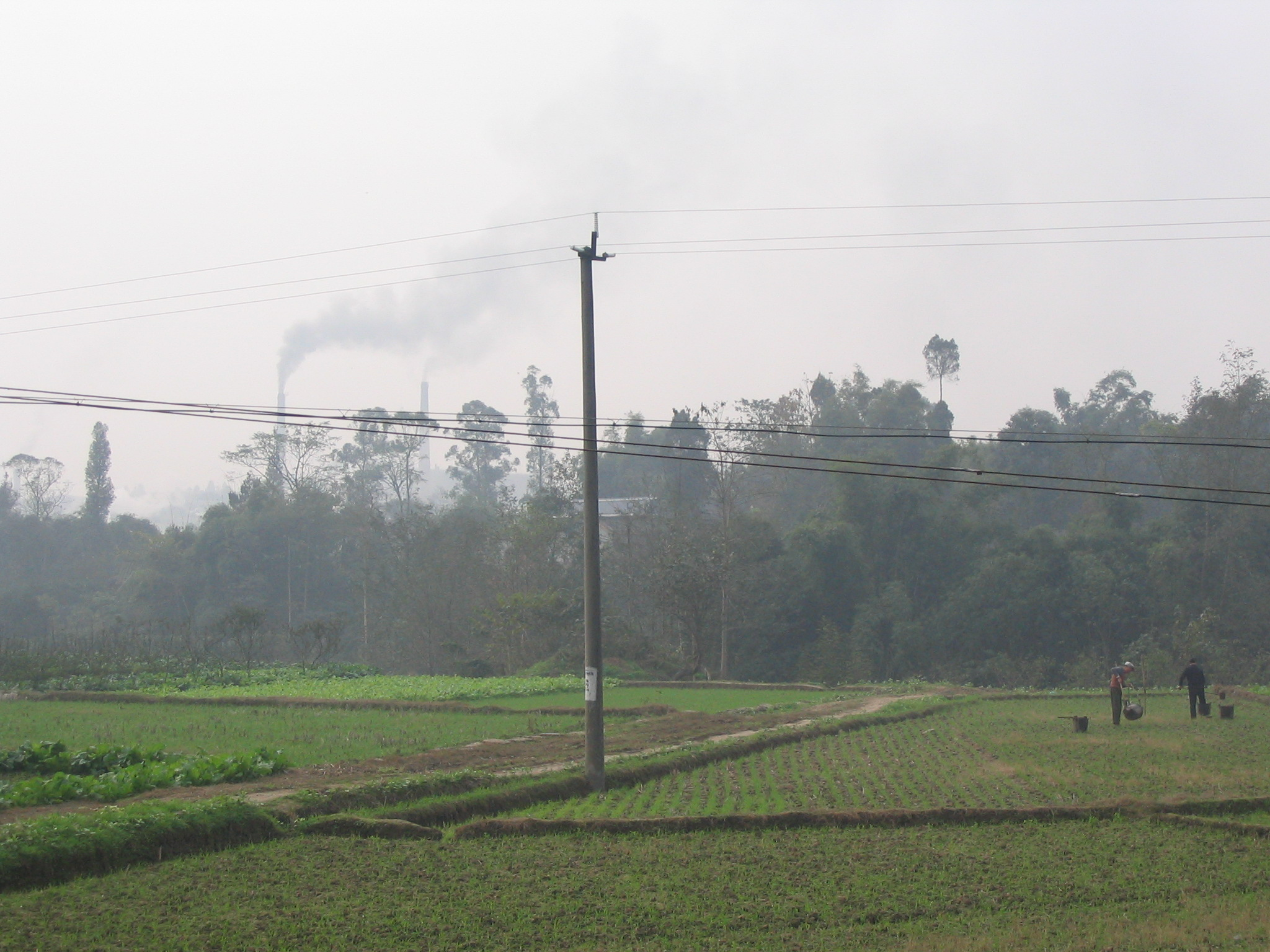 Vegetable fields with two people spreading "nightsoil" (i.e. poo) as fertiliser. Smokestacks are visible in the background. Villagers claimed that factory/plant has polluted the local groundwater. Taken in a small village in mountains near Chengdu, Sichuan, China.